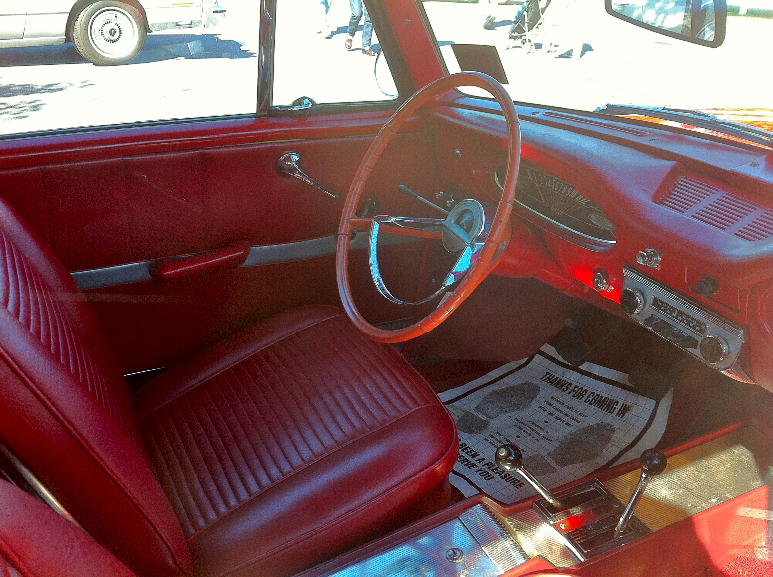 Interior view showing driver's area and featuring the console-maounted "Twin-Stick" transmission on a 1963 Rambler American, a compact-sized automobile, built by American Motors Corporation (AMC). This is a two-door hardtop (no B-pillar) in the 440 series model. Finished in two-tone red and white paint, with matching interior. This car features individually adjustable reclining front bucket seats, a center console, as well as the "Twin-Stick" manual overdrive transmission. Picture taken on the automobile sales field of the Antique Automobile Club of America (AACA) 2012 Hershey meet that is held in October.